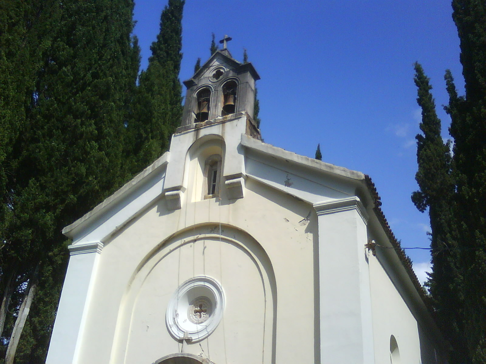 St. George Roman Catholic church in Gornja Vrućica